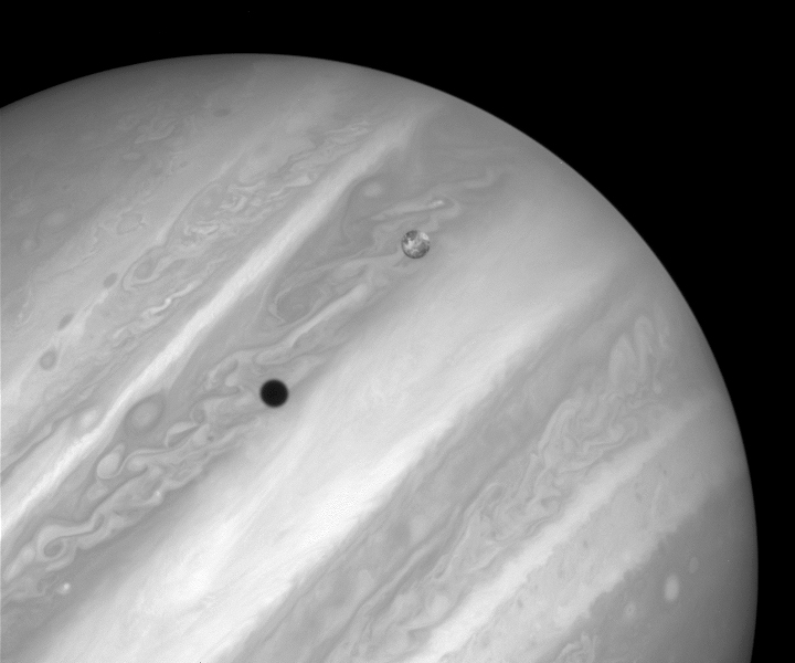 This image, shows Jupiter's volcanic moon Io passing above the turbulent clouds of the giant planet, on July 24, 1996. The conspicuous black spot on Jupiter is Io's shadow. The smallest details visible on Io and Jupiter are about 100 miles across (about 160 kilometres). Bright patches visible on Io are regions of sulfur dioxide frost. Io is roughly the size of Earth's moon, but 2000 times farther away.